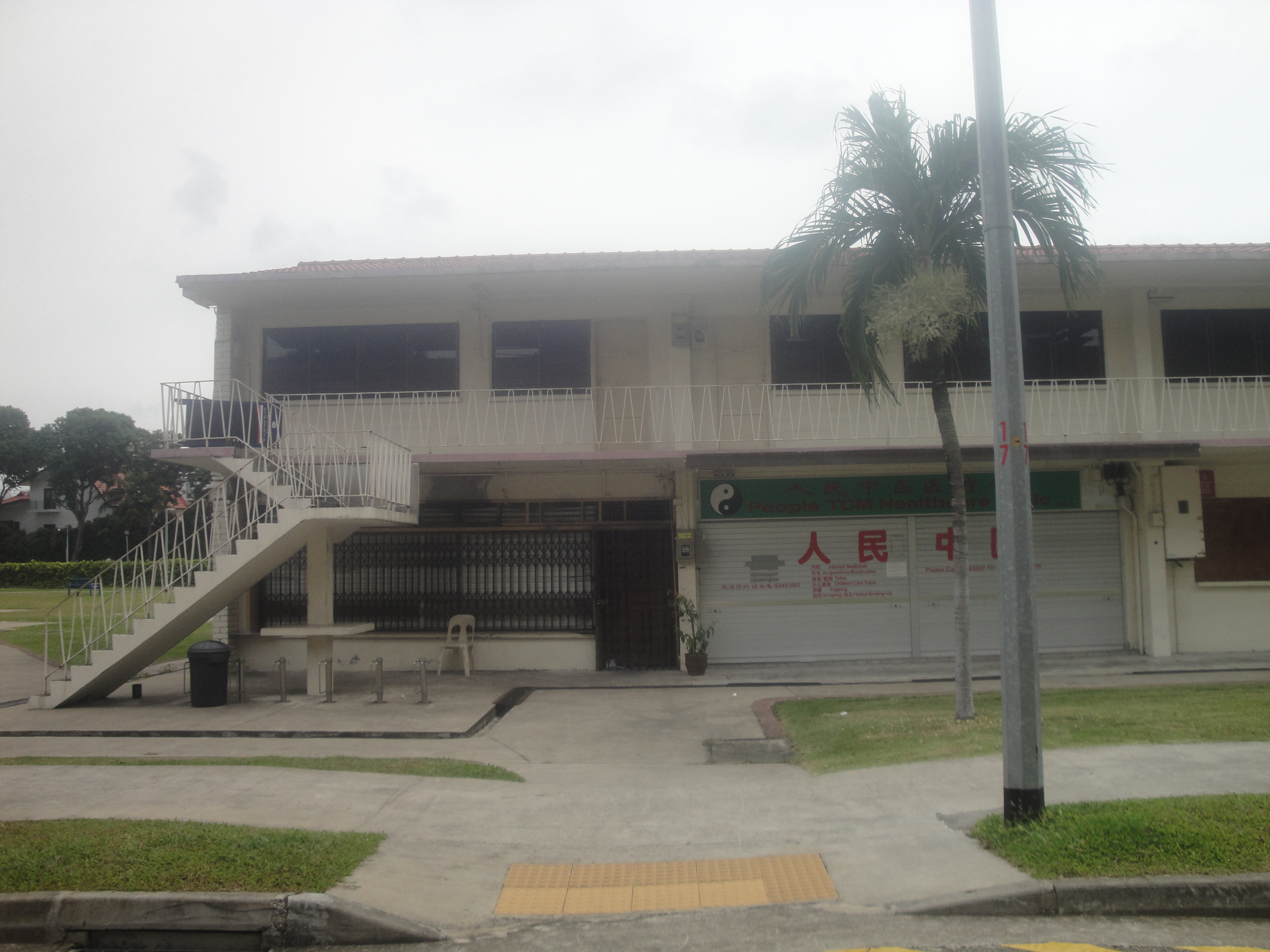 2-storey shophouses